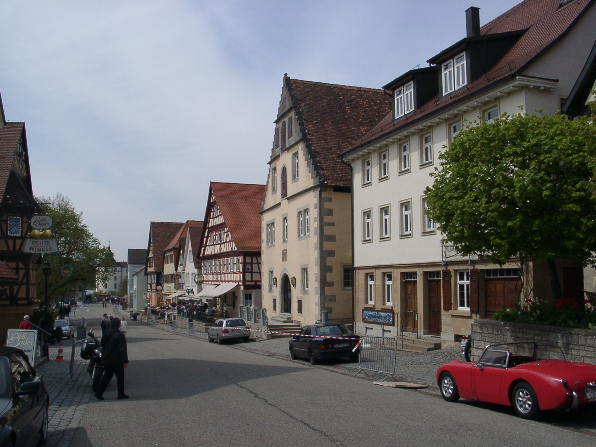 The main street in Langenburg